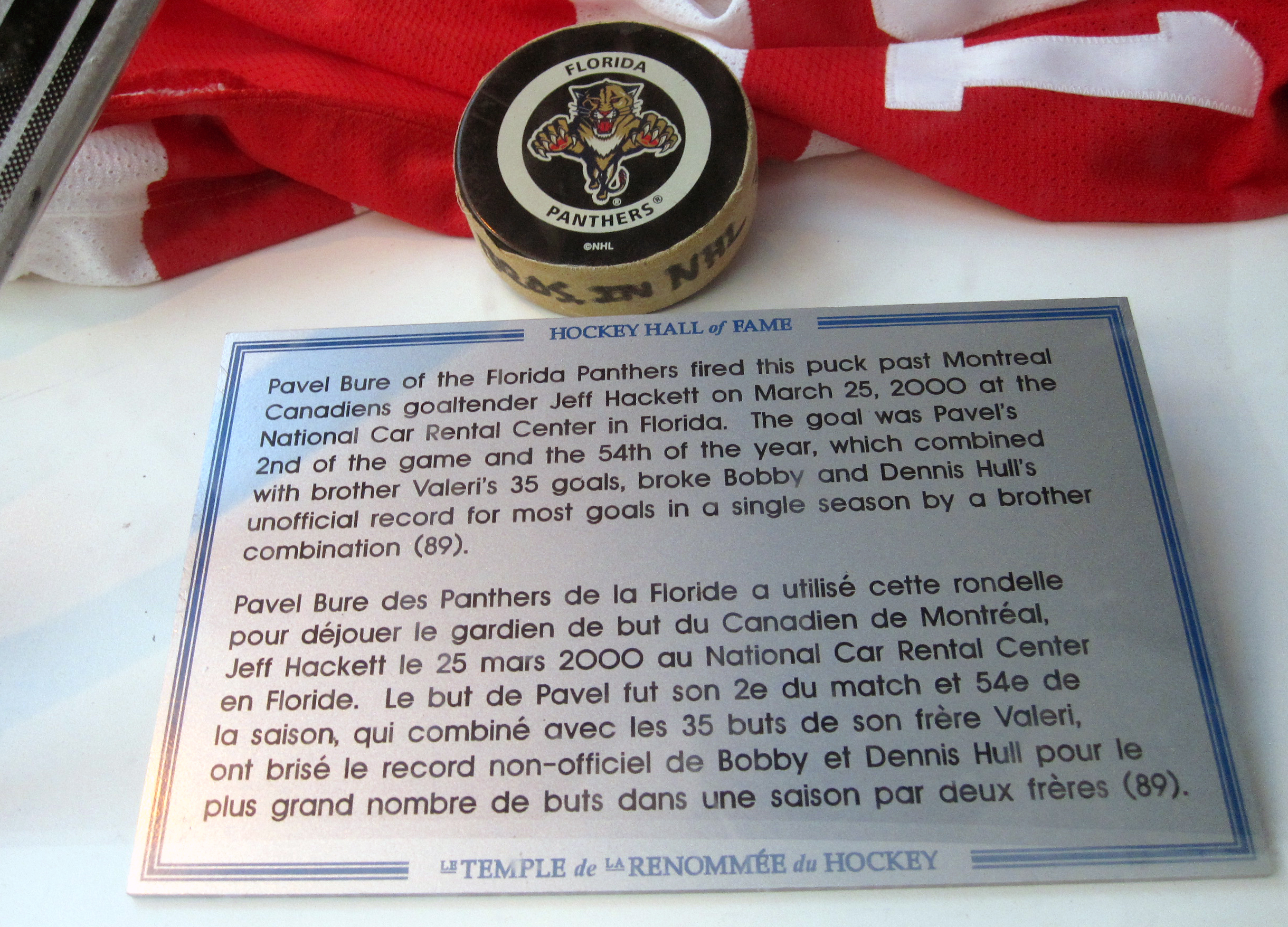 The puck Pavel Bure scored with for his 54th goal in 1999–00 on display at Russia House during the 2010 Winter Olympics. Combined with his brother Valeri Bure's 35 goals, the goal broke Bobby and Denis Hull's mark for most goals in a single-season by brothers (89).